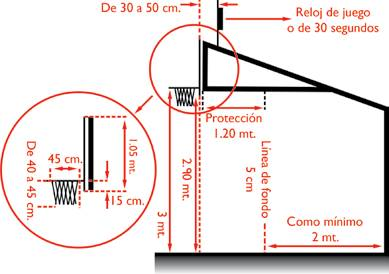 basketball